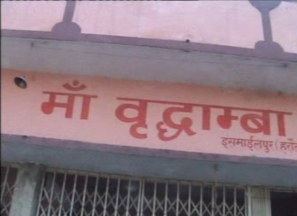 located in haruli,ismailpur,near state bank of india, lalganj road, vaishali, NH74